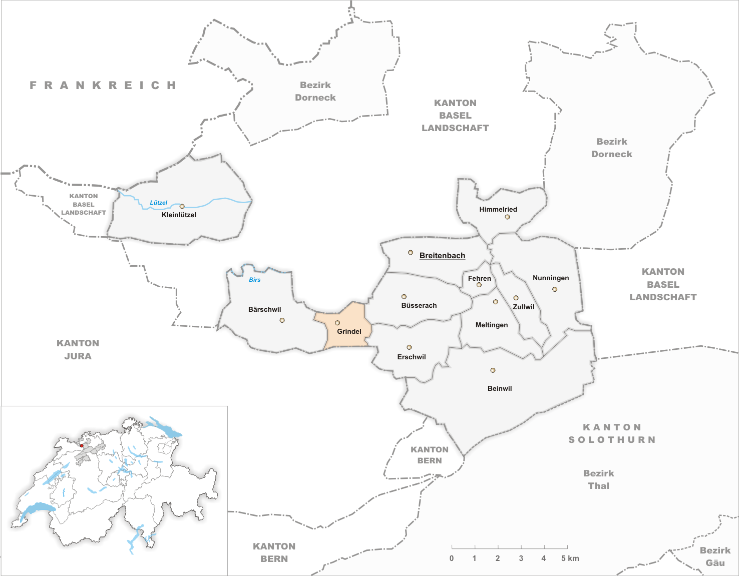 Municipality Grindel